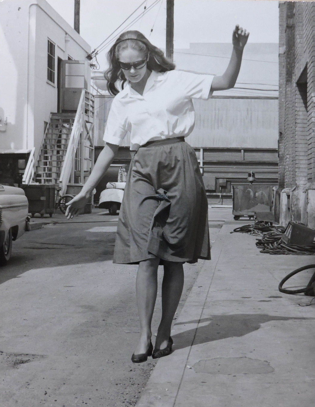 Elizabeth Hartman on the MGM studio lot, 1965